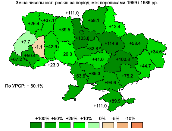 The change of the number of russians between 1959 and 1989 censuses